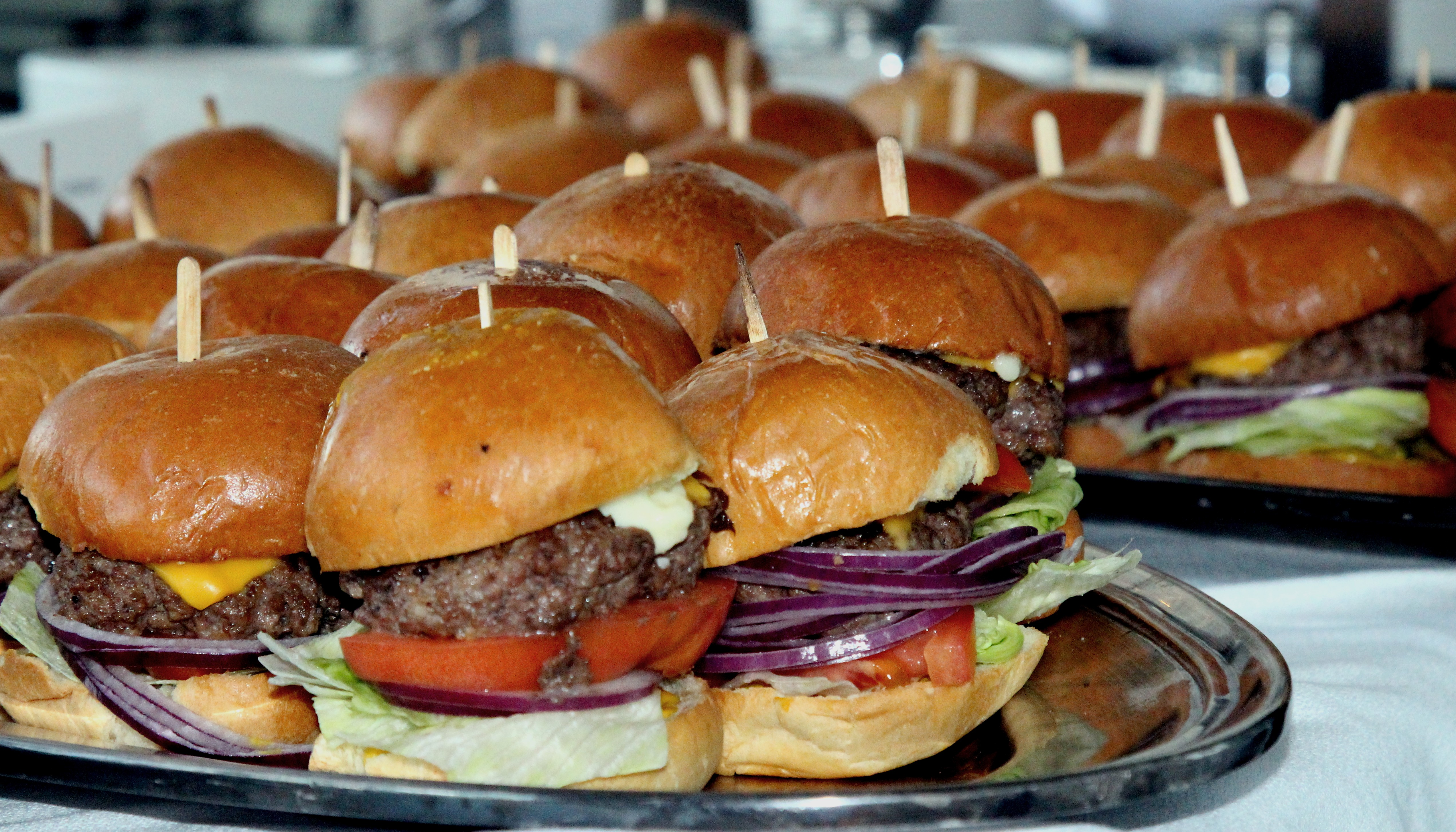 A party tray of sliders at a restaurant